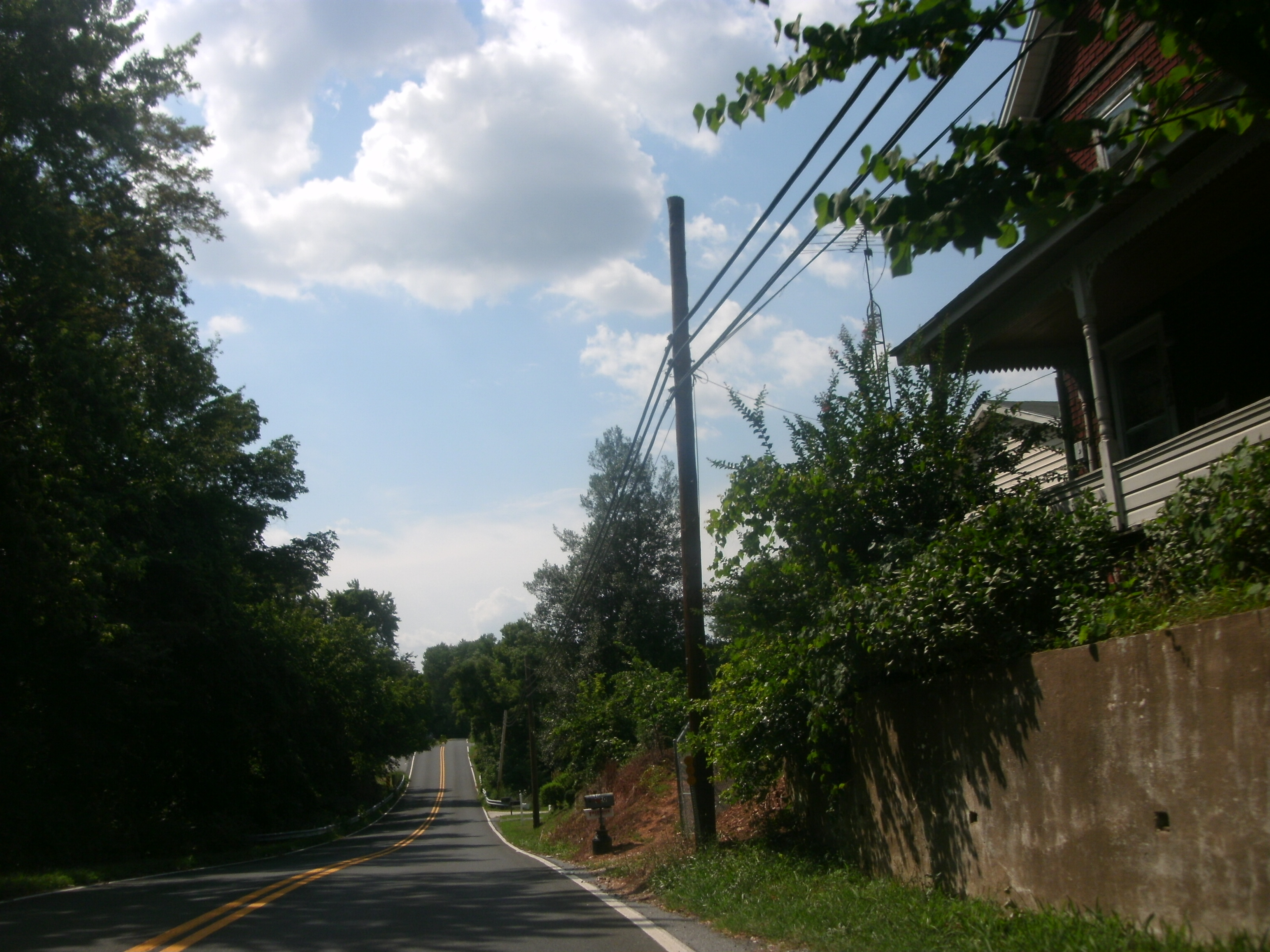 MD 478 midway between Knoxville, Maryland and Brunswick.